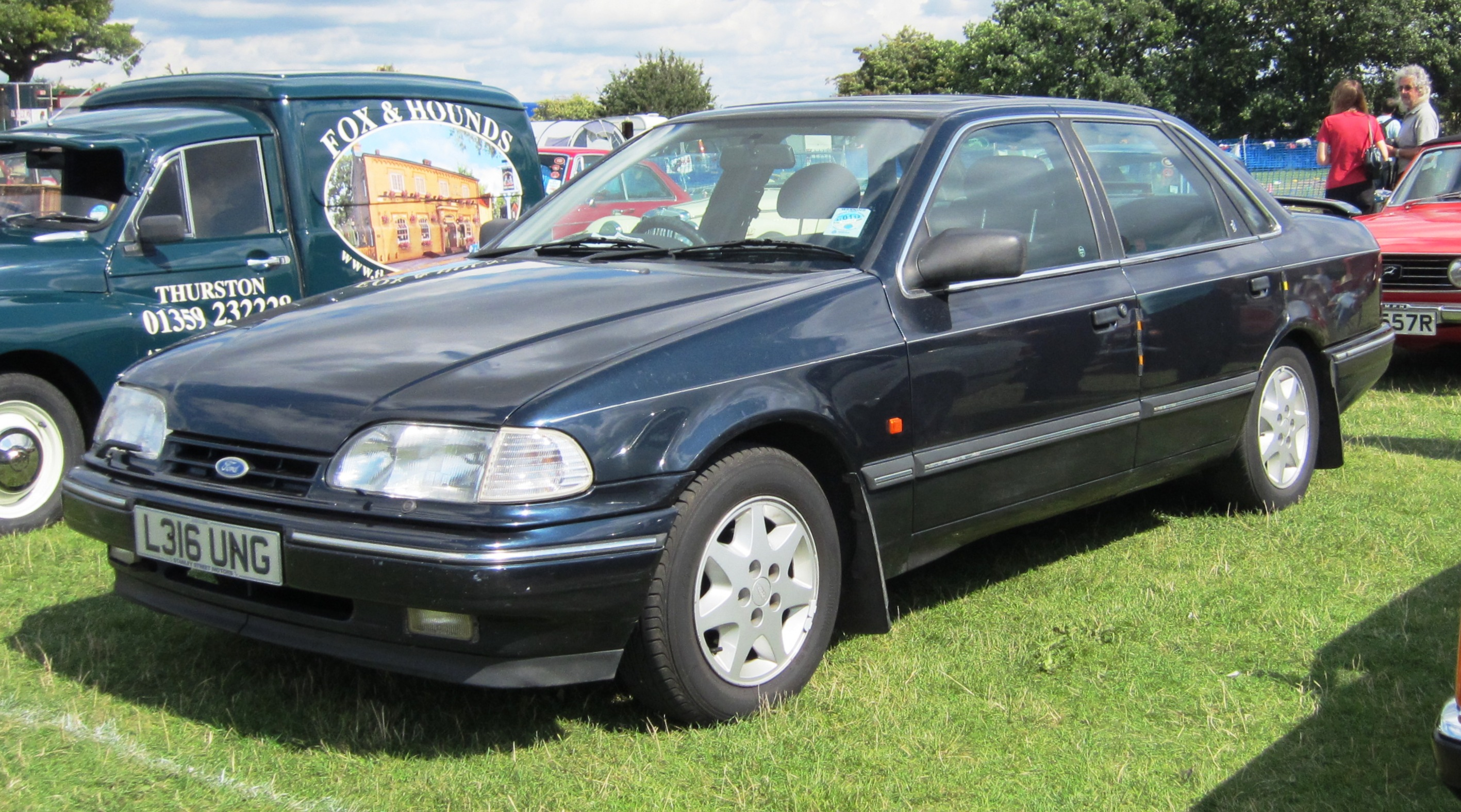 Ford Scorpio sedan in Suffolk